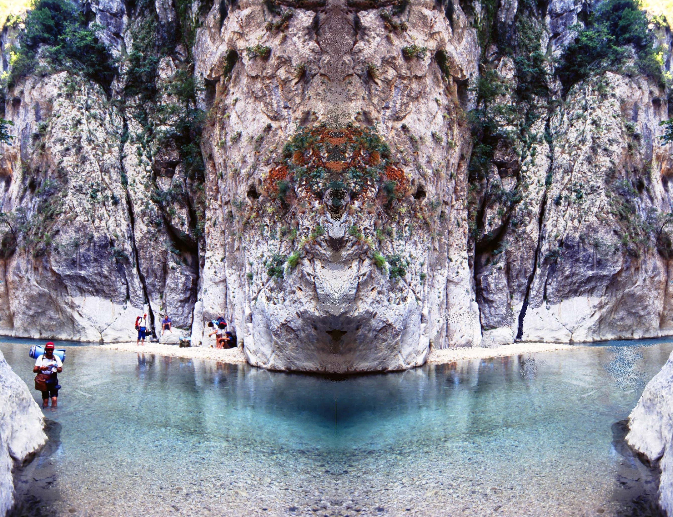 Acheron River Canyon (1994)